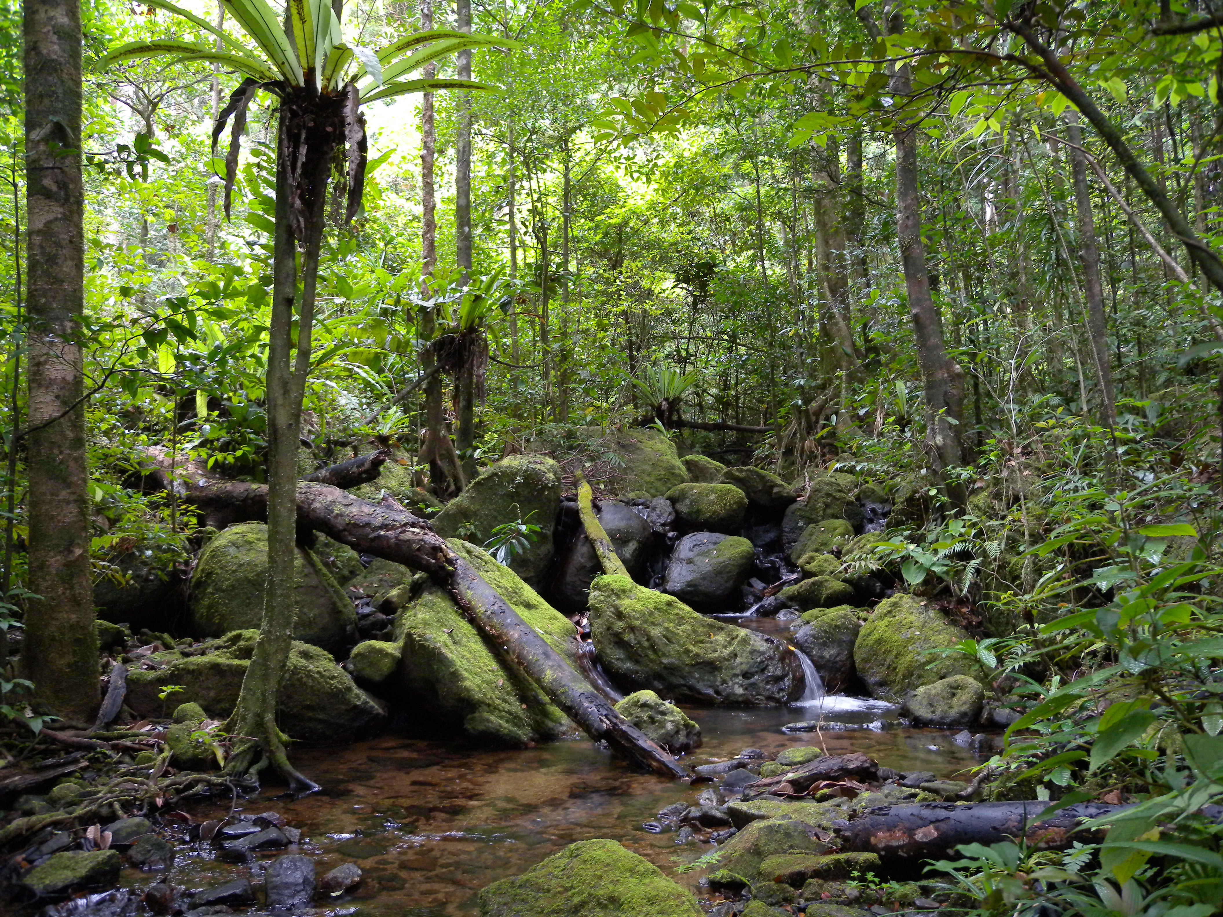 Lowland rainforest, Masoala National Park, Madagascar